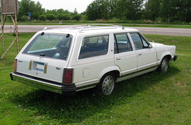 1982 Mercury Cougar GS station wagon photographed in Minnesota. File:1982 Mercury Cougar GS wagon.jpg is a front view of the same car.